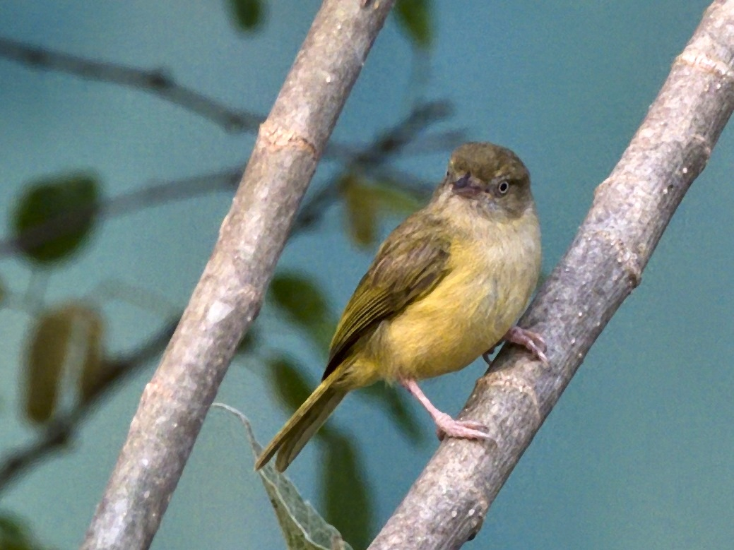 Scrub Greenlet at Lago de Picaleña, Colombia